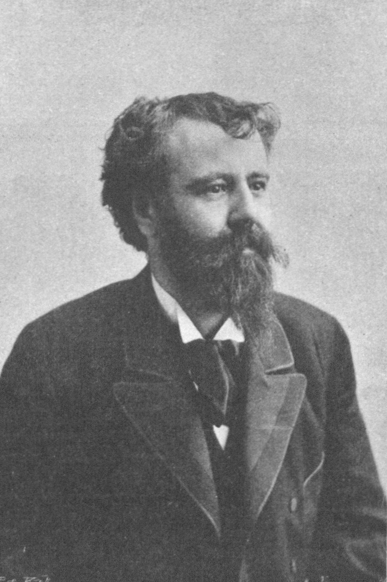 Hermann Bahr (1863–1934), Austrian writer, playwright, director, and critic.